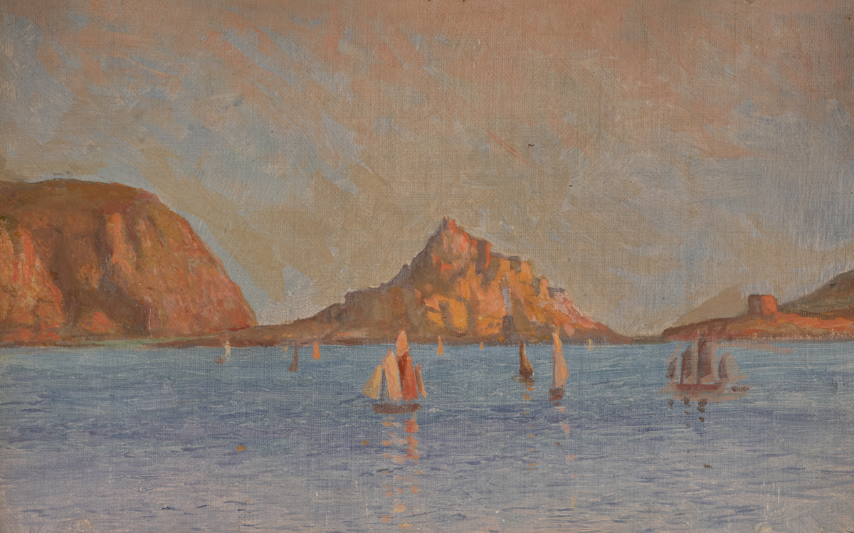 Oil on canvas painting by William Morrison Wyllie. 22.9 x 33 cm; in the Southwark Art Collection.